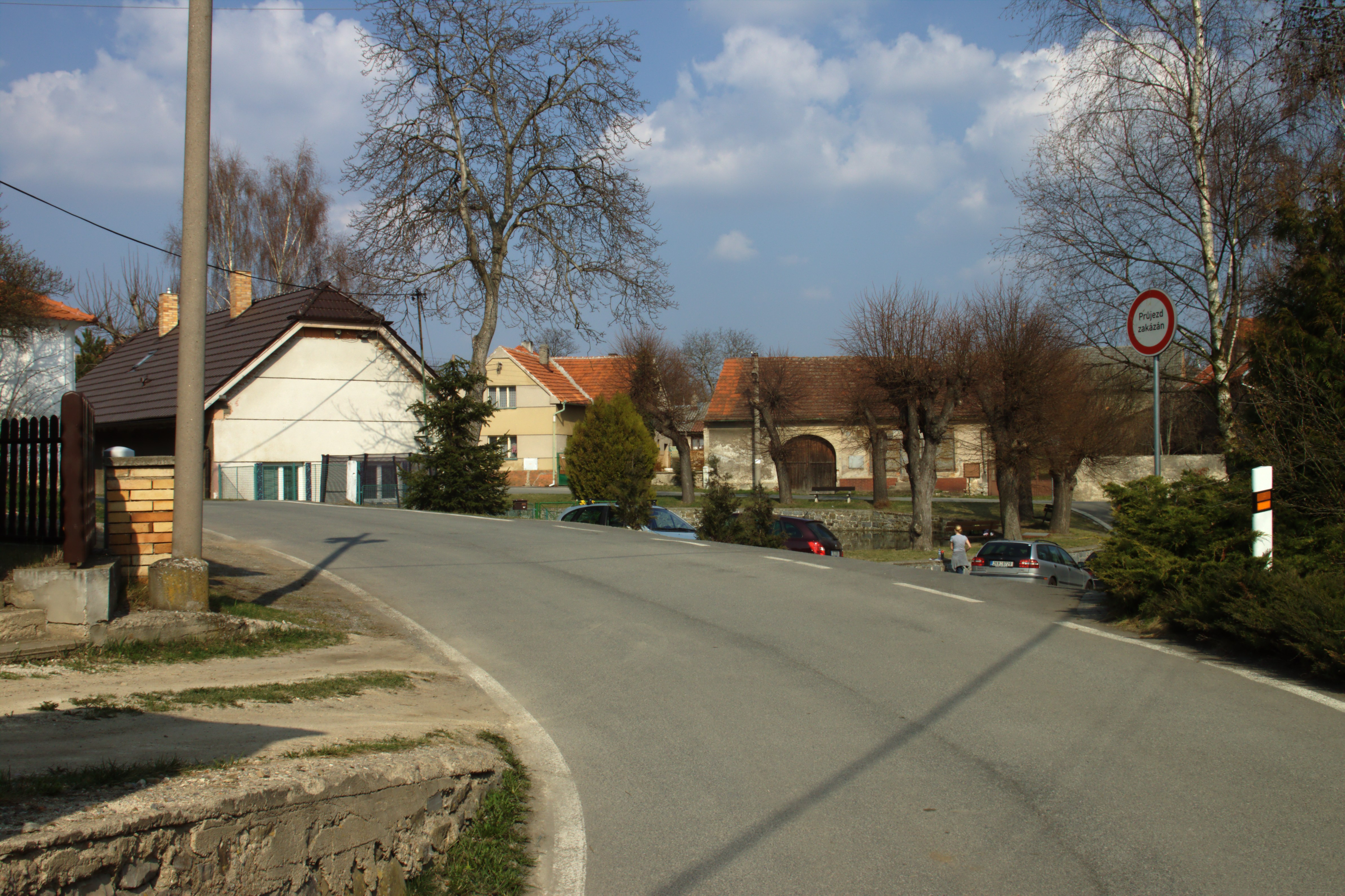 The village of Lounín (part of the town of Tmaň) in Central Bohemian Region, CZ